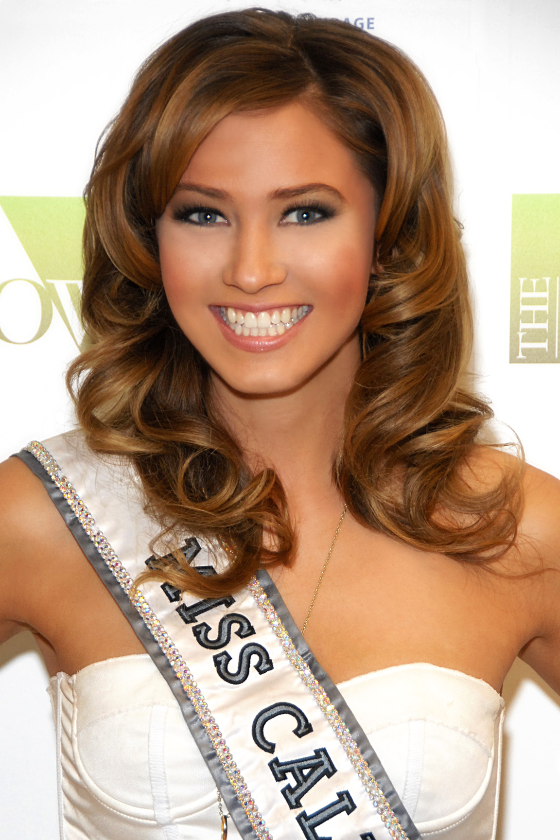 Tami Farrell backstage at the Miss California USA 2010 pagent at the Agua Caliente Casino in Rancho Mirage, CA on Nov. 22, 2009 - Photo by Glennn Francis of